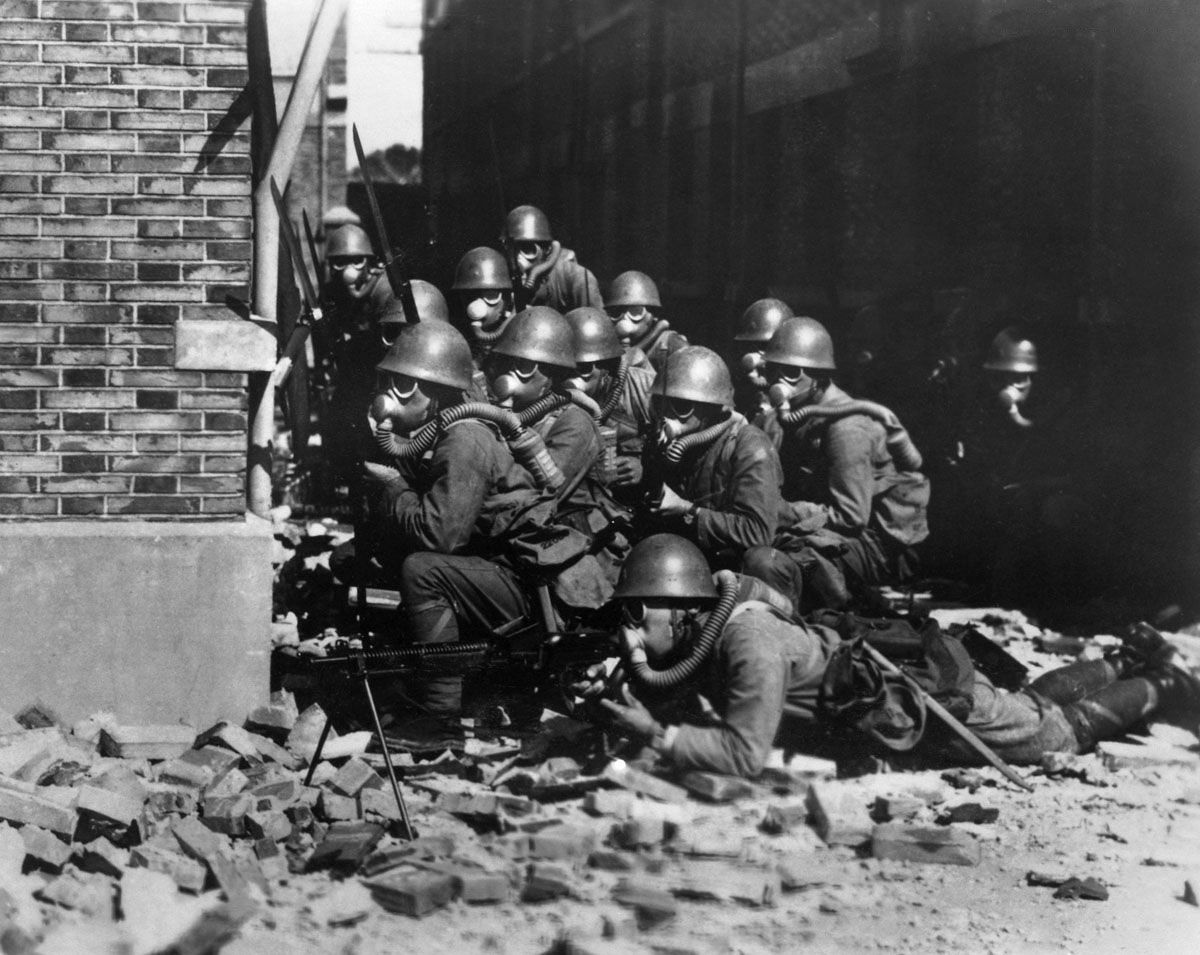 The Imperial Japanese Navy (IJN) Special Naval Landing Forces troops in gas masks prepare for an advance in the rubble of Shanghai, China.